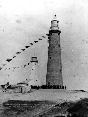 Official opening of Wadjemup Lighthouse, with old lighthouse also still standing. SLWA catalogue notes: "Built by Edward Staples. Notes on reverse of photograph suggest figure on top of lighthouse could be Edward Staples. Party present includes Sir John & Lady Forrest, Sir George & Lady Shenton, Messrs D.K. Congdon, E.W. Davies, W.E. Marmion, Geo. Randell, E. Solomon, M.L. Moss, Chief Harbour Master Capt. Russell, Asst. to the Engineer-in-Chief Mr G.T. Poole, Freemantle Resident magistrate Mr R. Fairbairn, Dr Waylen, and other "prominent residents". (West Australian 18.3.1896, p.5a-b)"